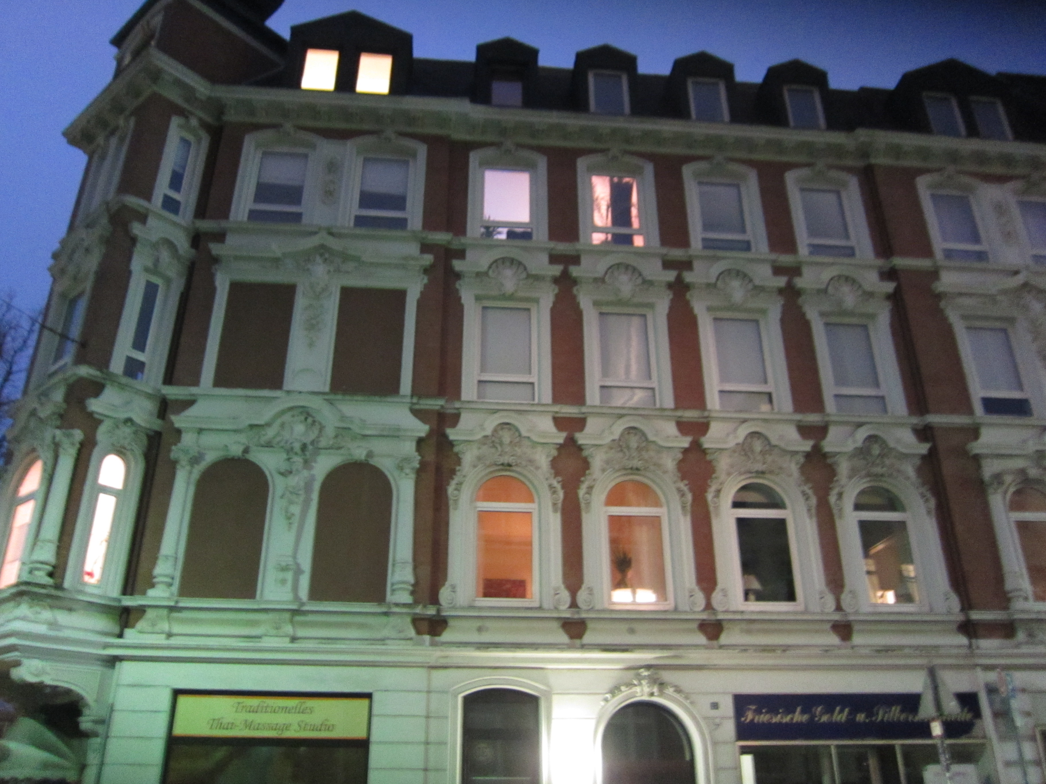 House "Friesische Straße 27" in Flensburg